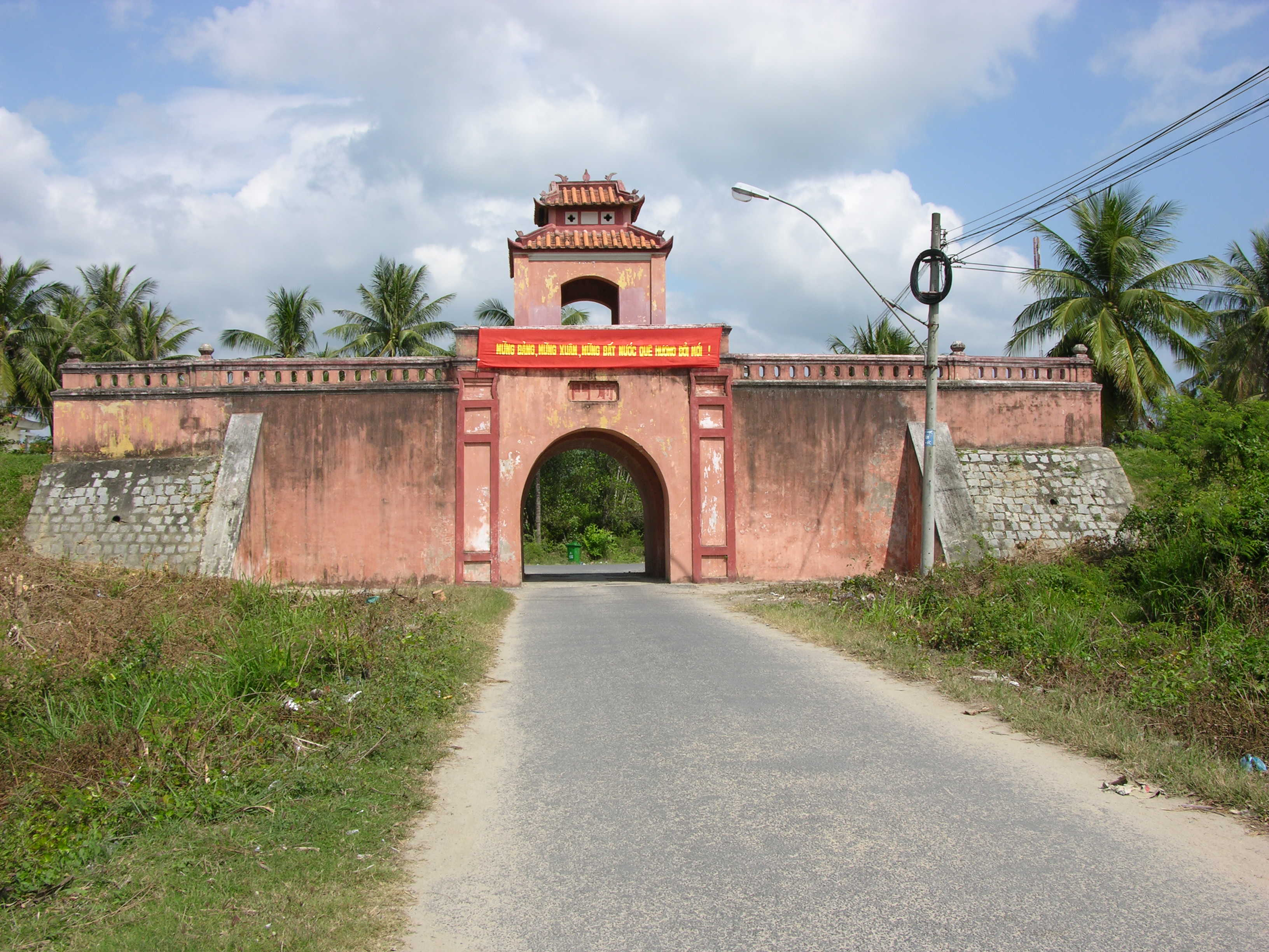 The front gate of the old citadel of Dien Khanh, built by emperor Gia Long of Viet Nam